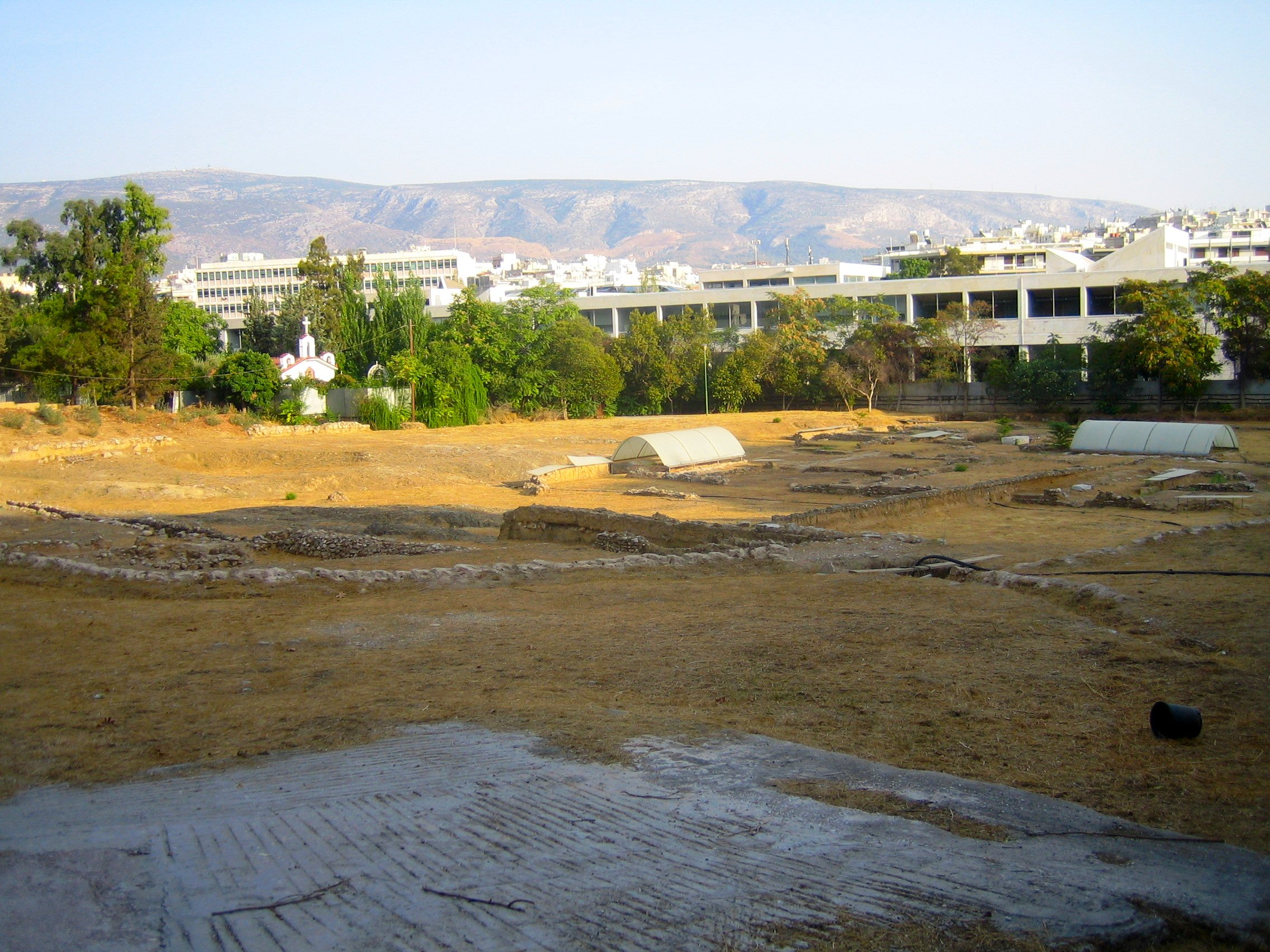 Aristotle's Lyceum gymnasium, archaeological site in Rigillis Street, Athens.